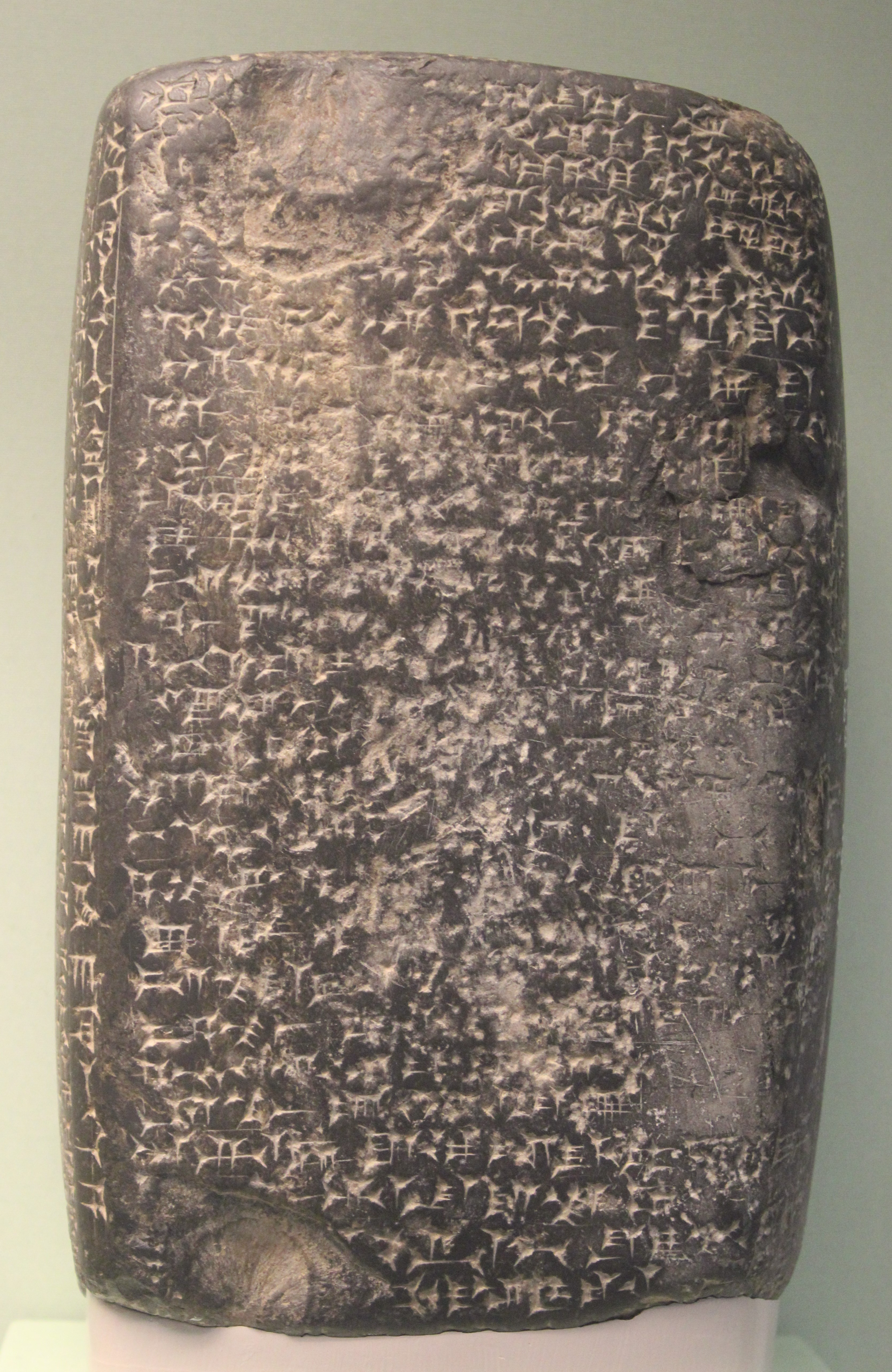 Stone tablet, royal inscription of Tukulti-Ninurta I (1243-1207 BC), commemorating military campaigns and the foundation of a new capital, Kar-Tukulti-Ninurta. ME 115692. Variants exist at Berlin (VA 8253 and 8834).